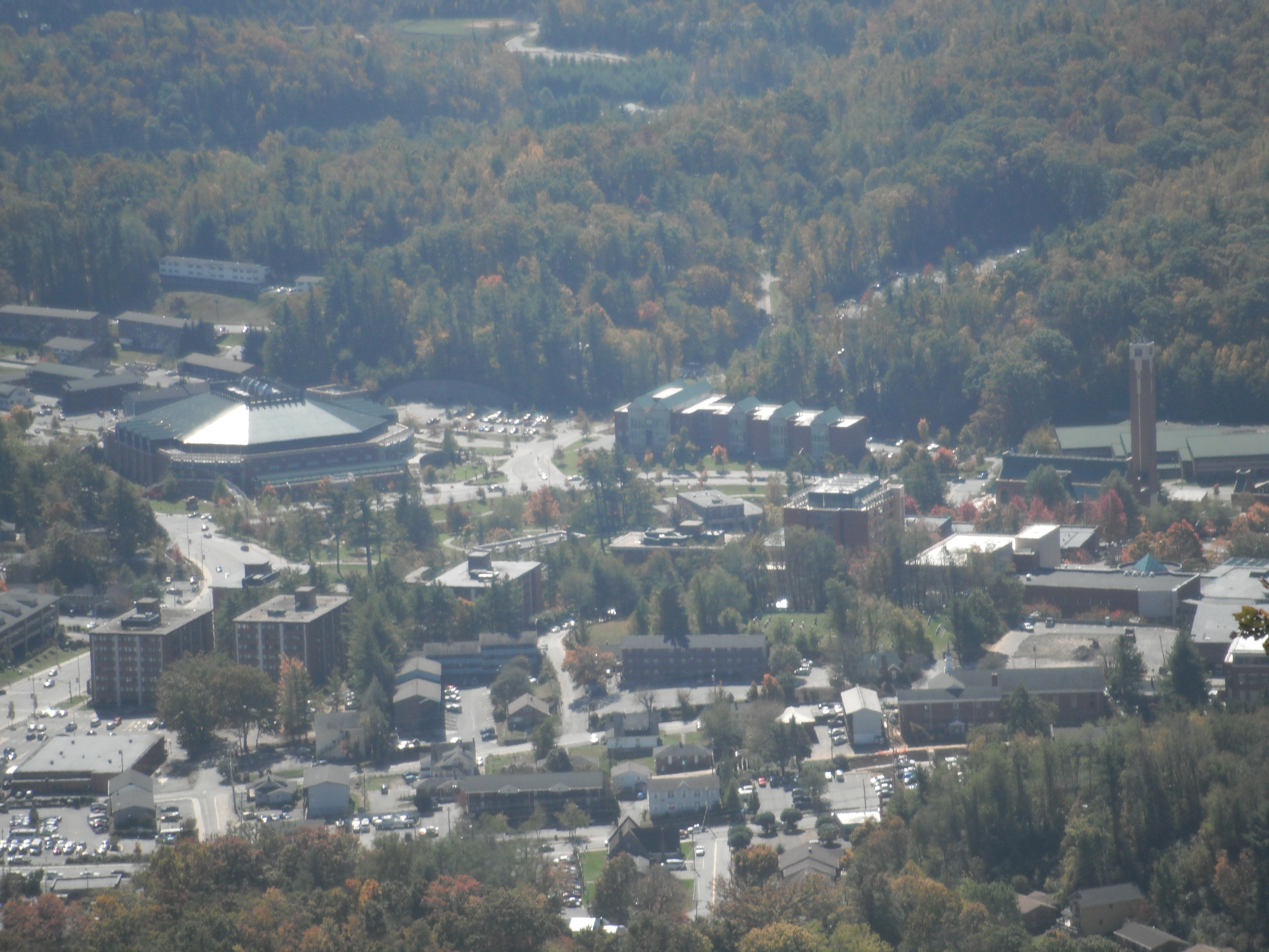 The campus of Appalachian State University viewed from the summit of Howard's Knob.